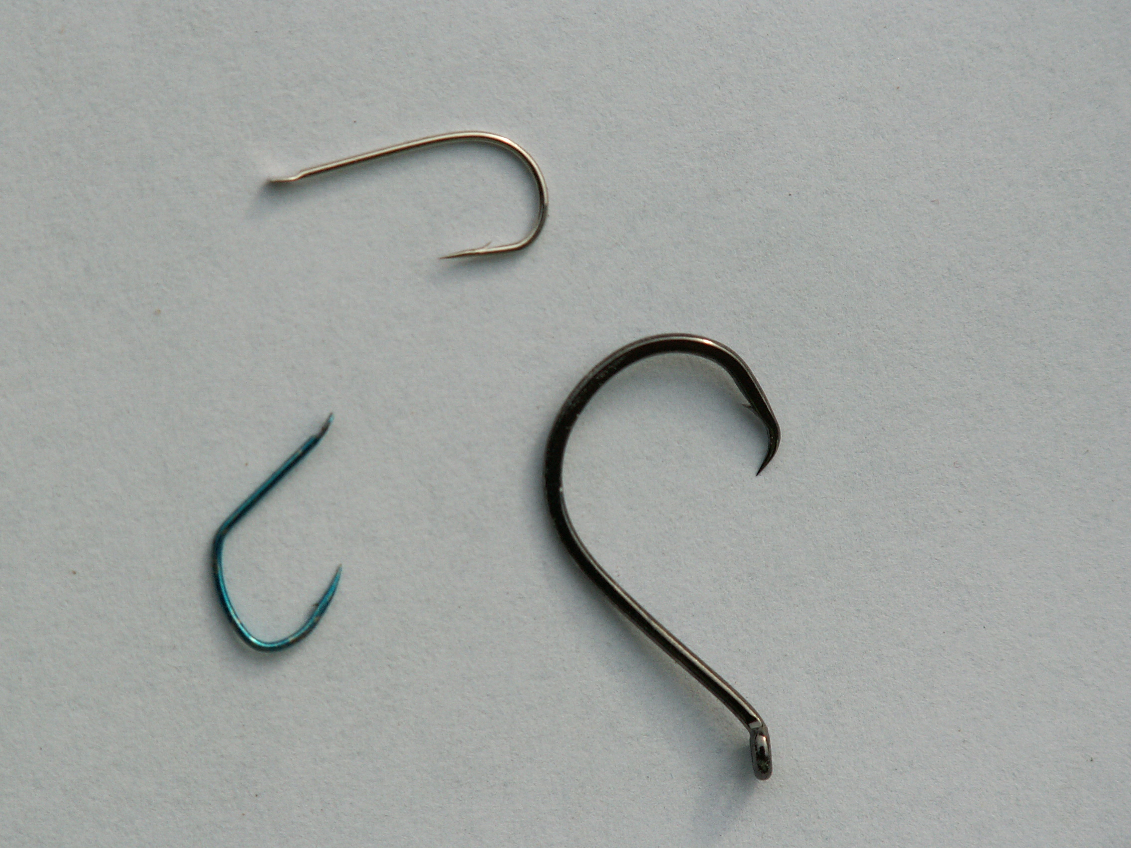 Small selection of fish hooks for Bream and Pikeperch